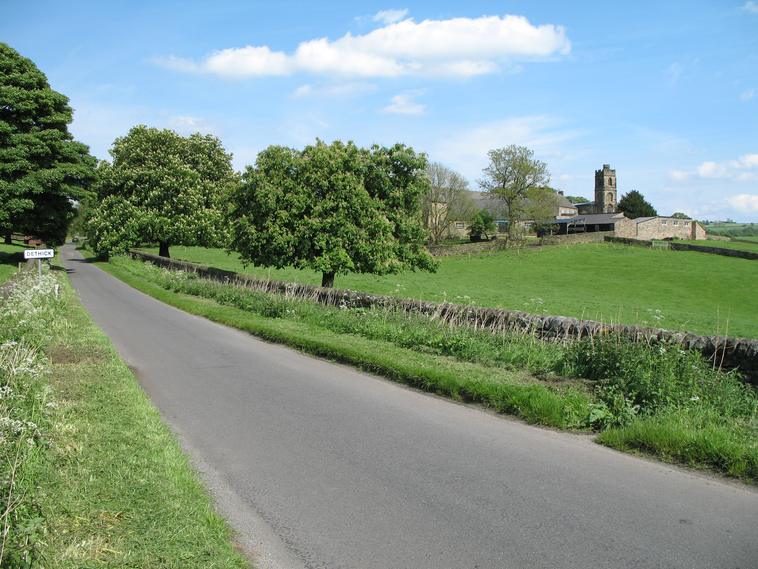 A view of a small village in Derbyshire known as Dethick. Taken by Andrew Waite (naxtek) on a Canon A620.